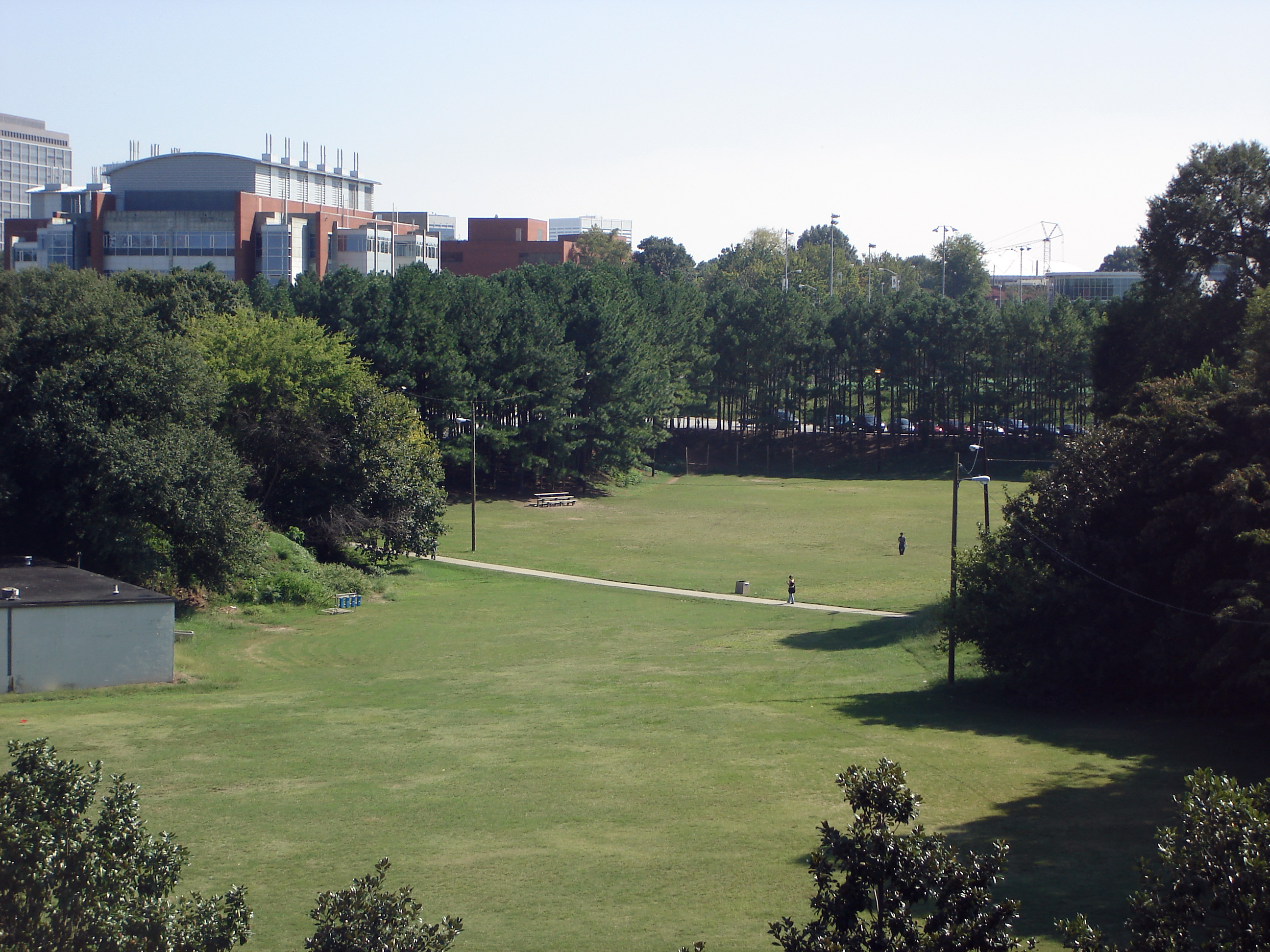 A picture of the burger bowl at Georgia Tech. Photographer: Kyle Koza